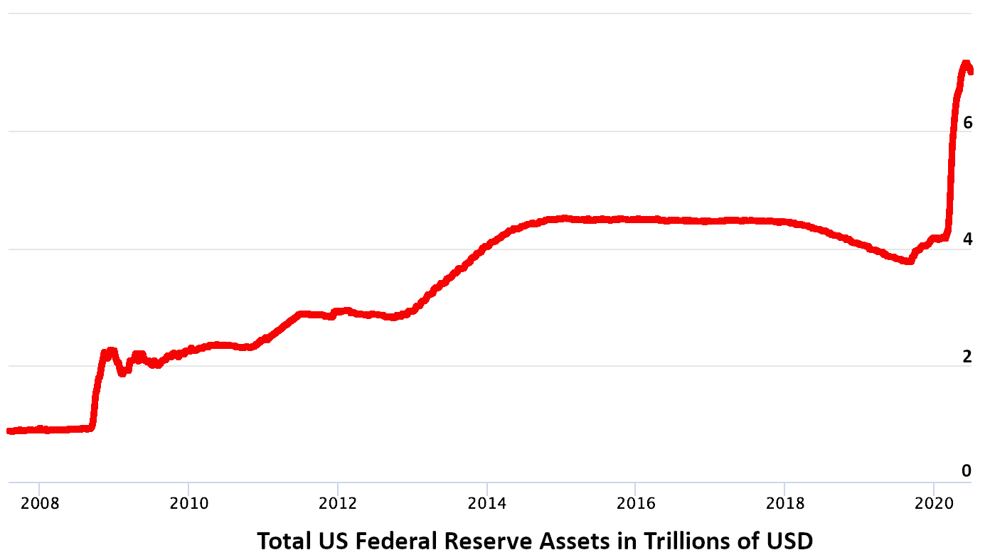 Data from